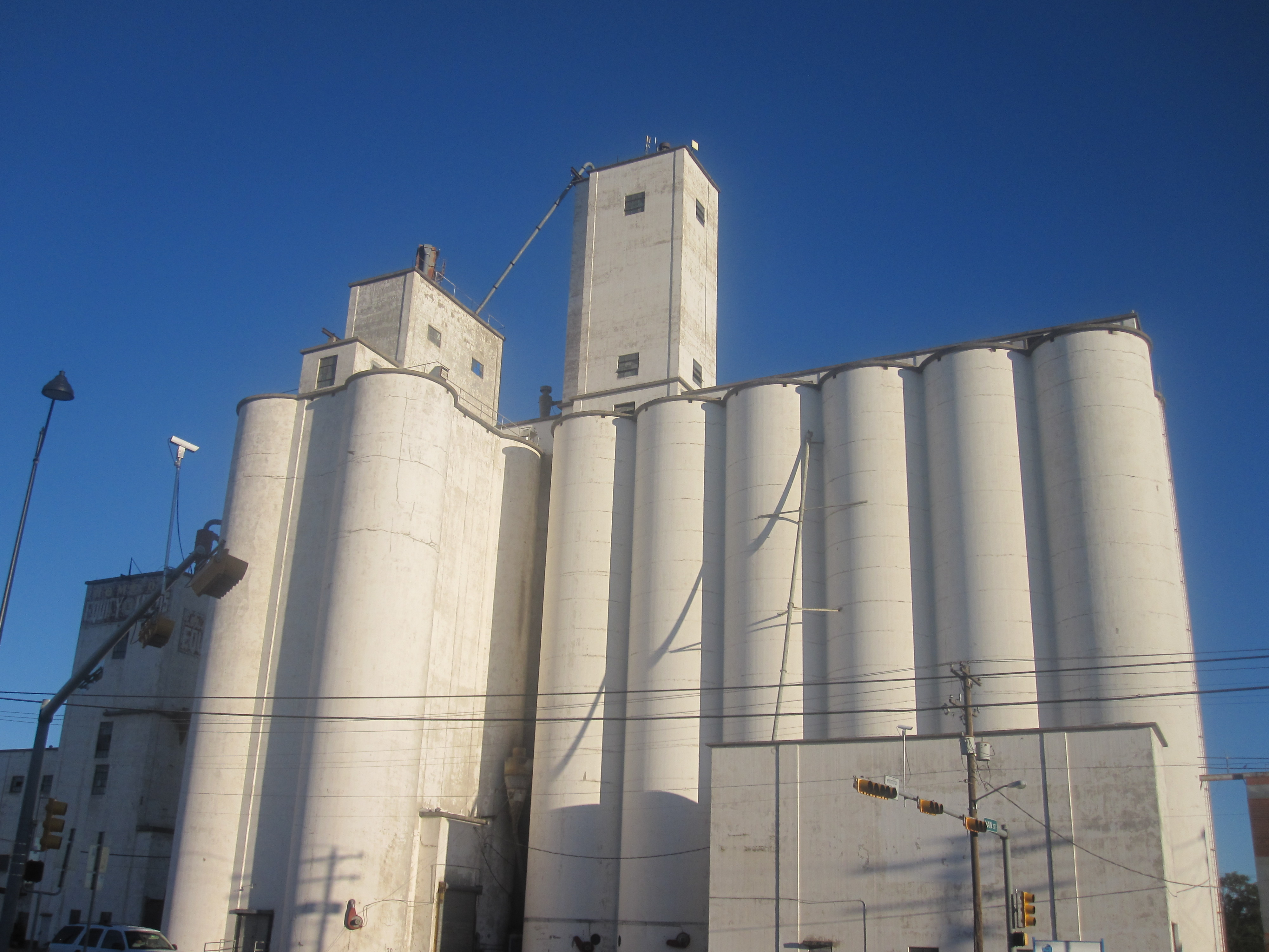 I took photo with Canon camera in Perryton, Texas.